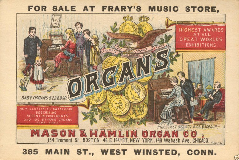 An advertising trading card apparently printed by Mason & Hamlin Organ Co. and issued by Frary's Music Store in West Winsted, Connecticut, perhaps from the 1880s, as the source states.